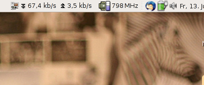 Gnome panel showing some applets (netspeed and cpu frequency)